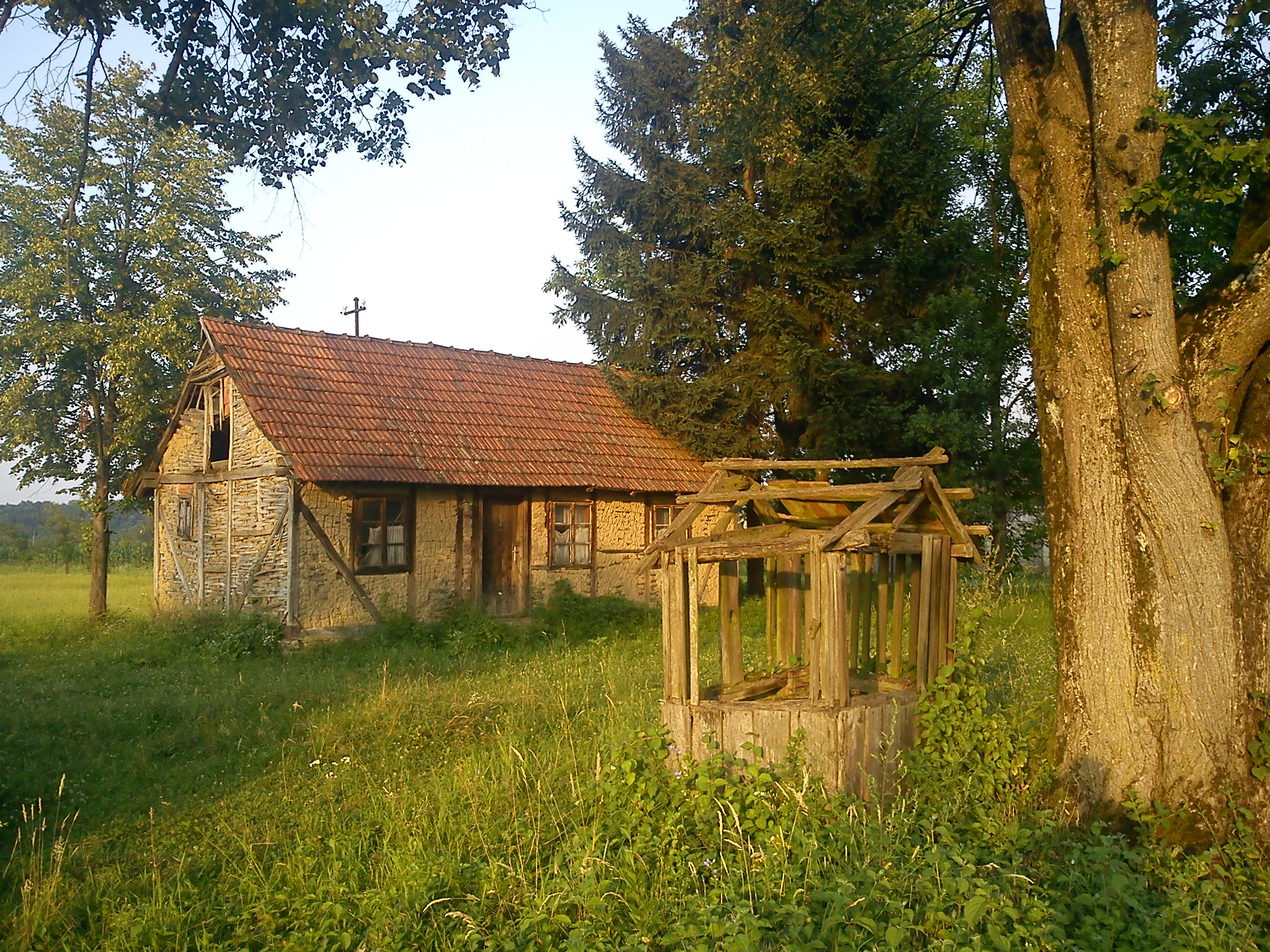 Old house in Međuvođe, Republika Srpska.